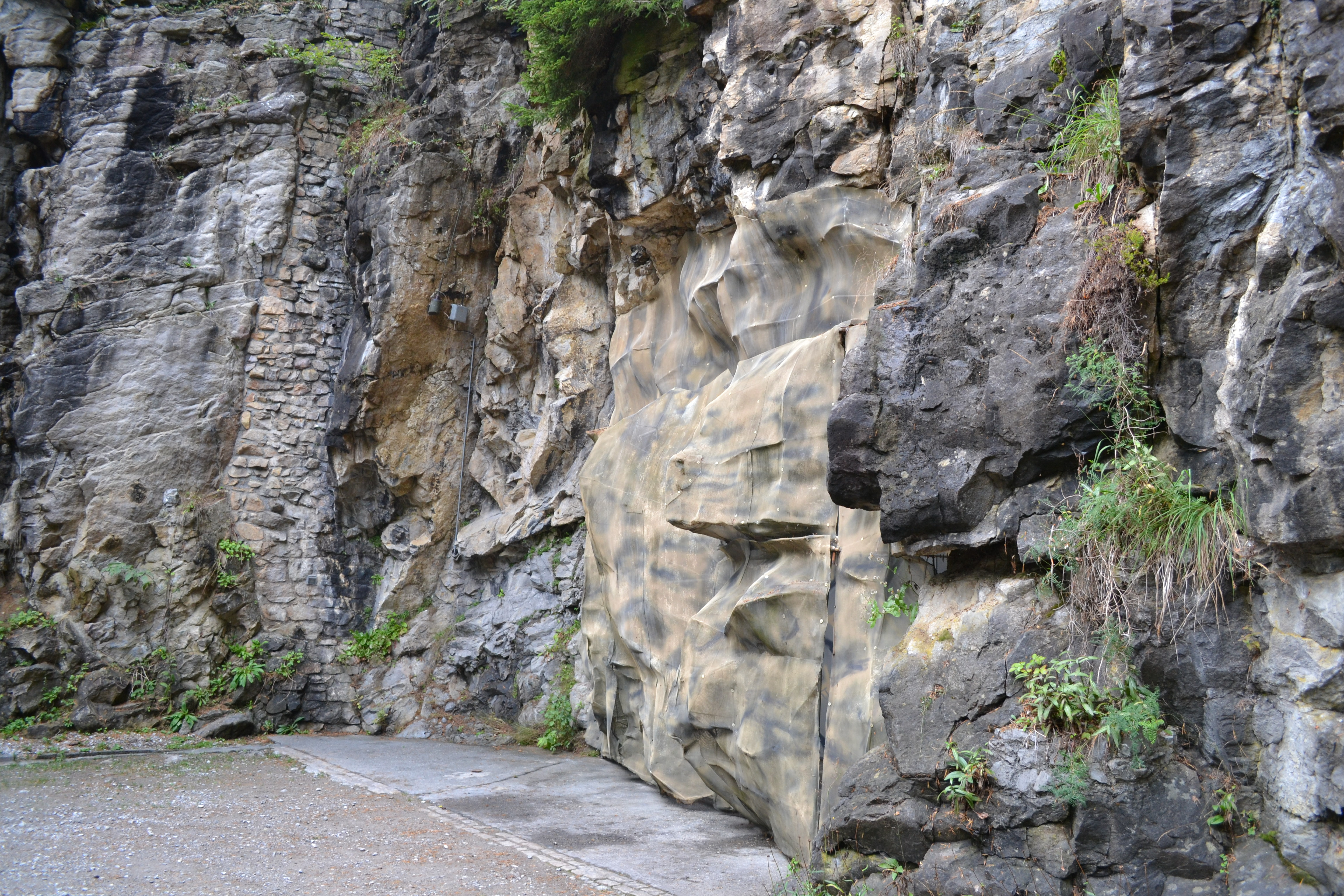 entrance Artilleriewerk Waldbrand